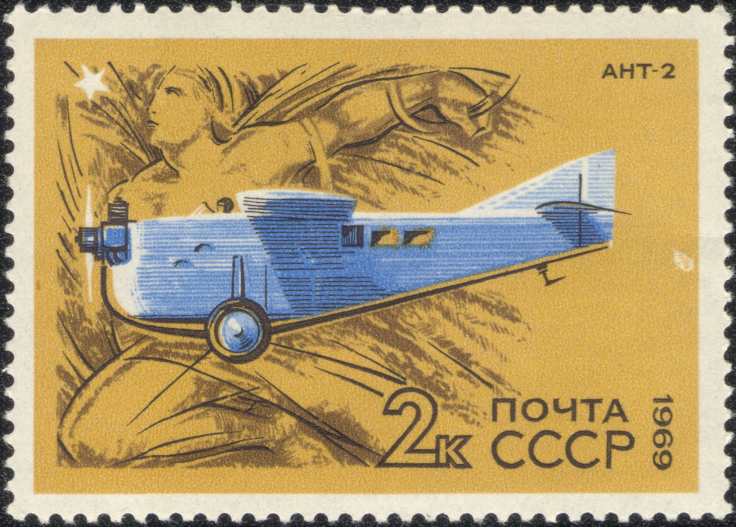 USSR stampː Airplane Tupolev ANT-2, 1924. Icarus. Seriesː Develoment of Soviet Civil Aviation